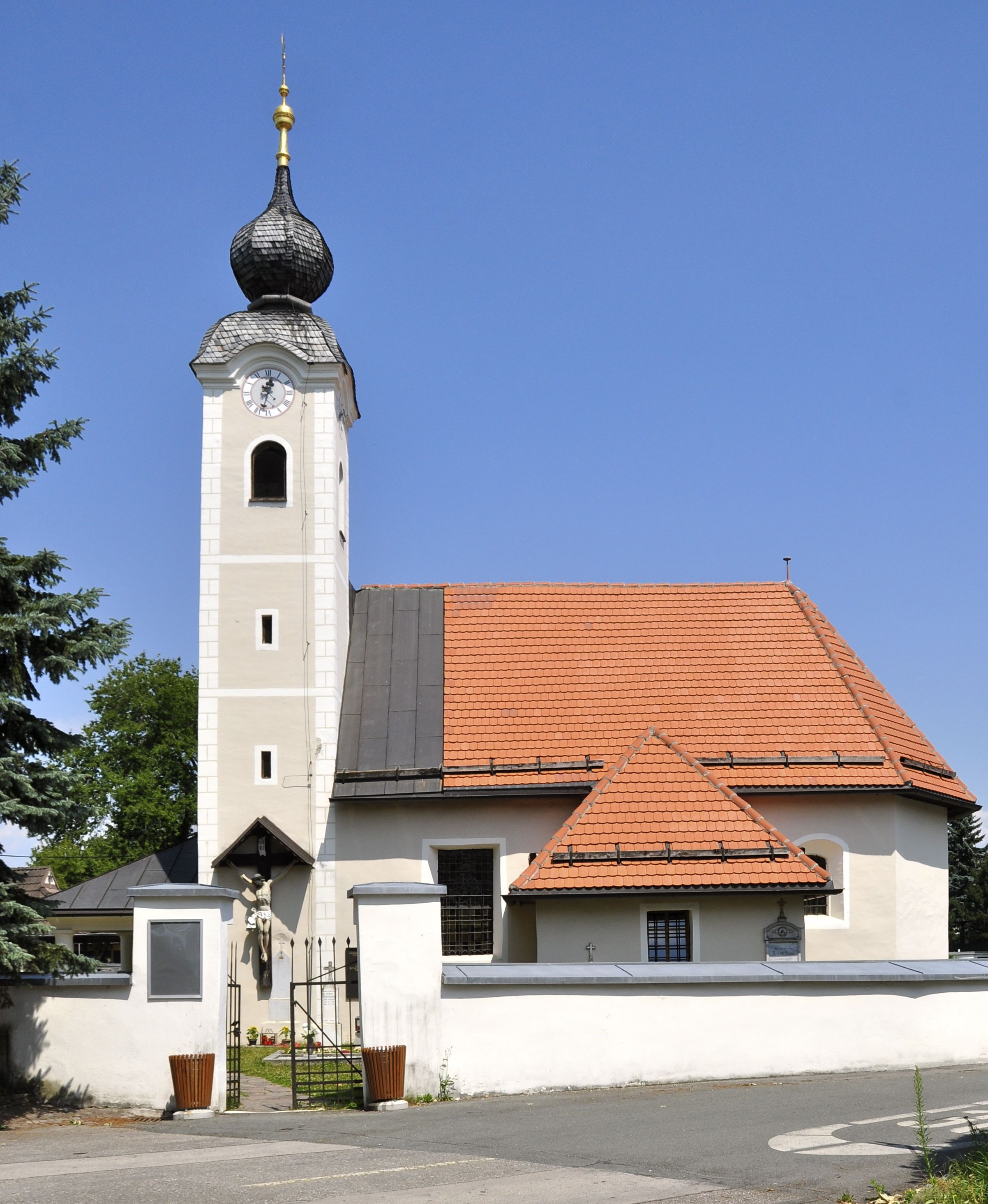 Parish church Saint James the Greater in the 15th district "Hoertendorf", statory town Klagenfurt, Carinthia, Austria, EU